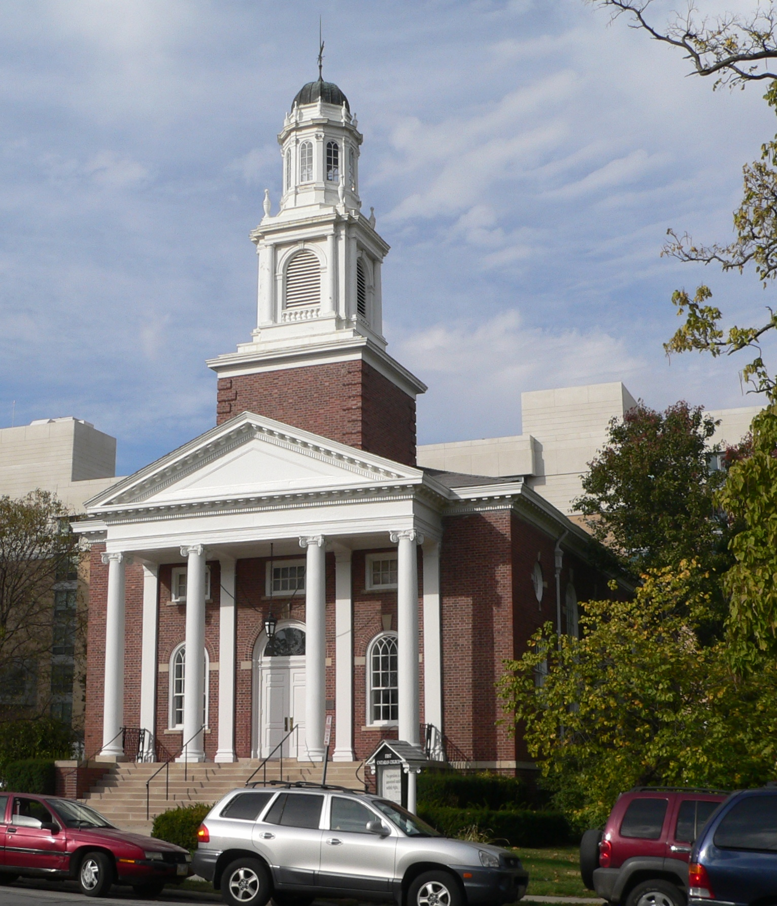 First Unitarian Church of Omaha, located at 3114 Harney Street in Omaha, Nebraska; seen from the southeast.